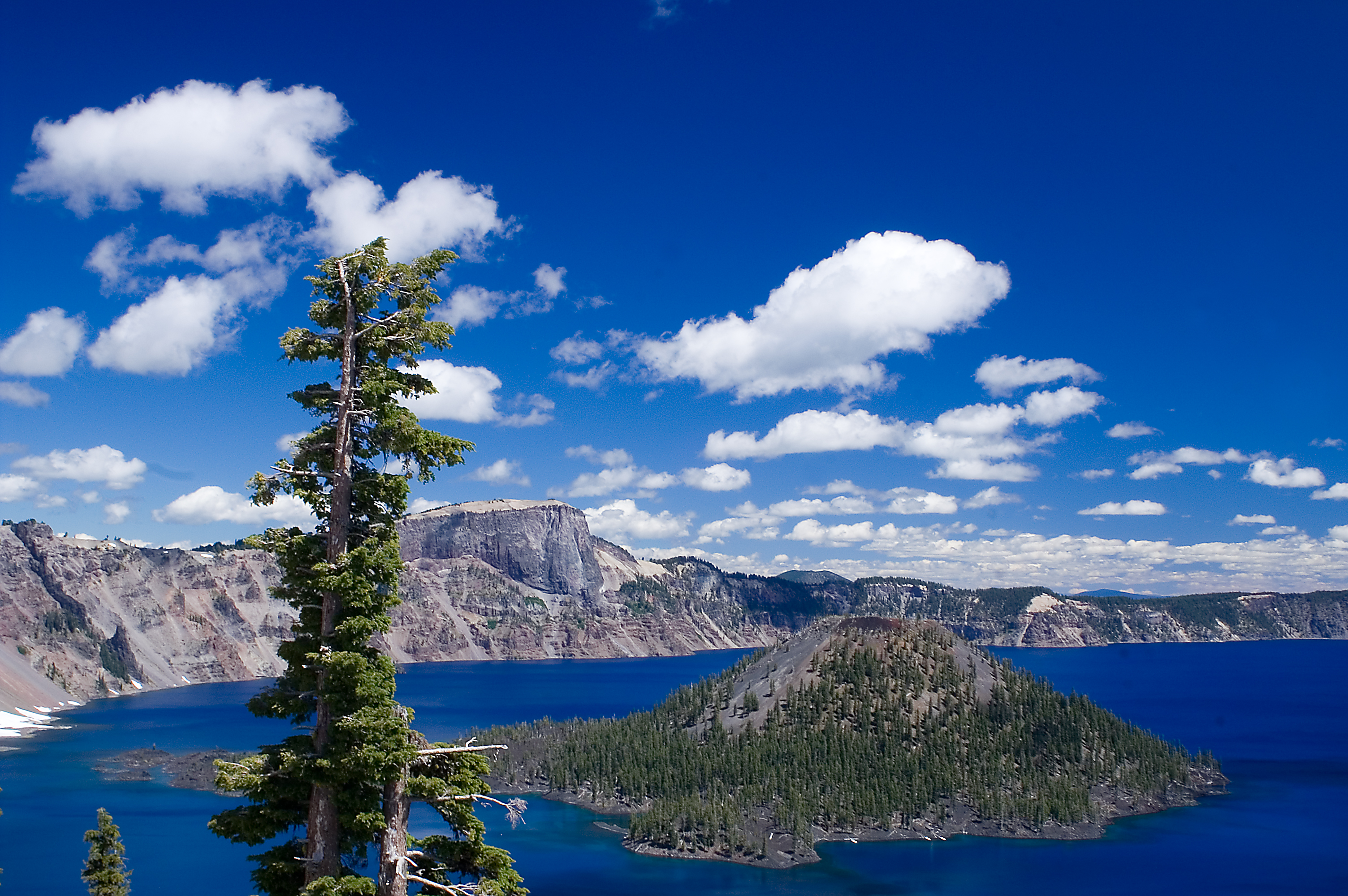 Wizard Island - Crater Lake Oregon